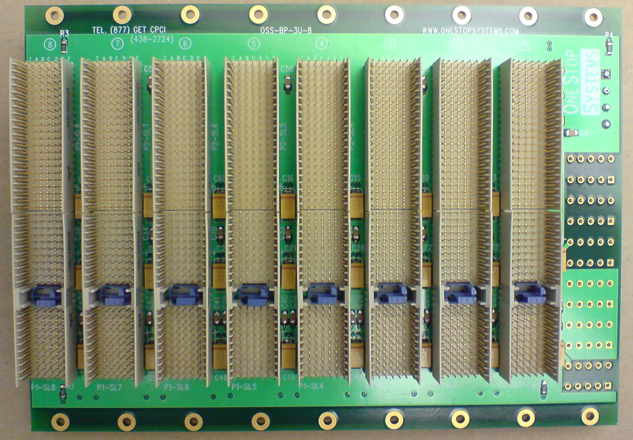 A 3U CompactPCI backplane. The top "J2" connectors are passthrough pins to another connector on the back of the printed circuit board. The bottom "J1" connectors (with the blue key in the middle) carry the 32-bit PCI bus.